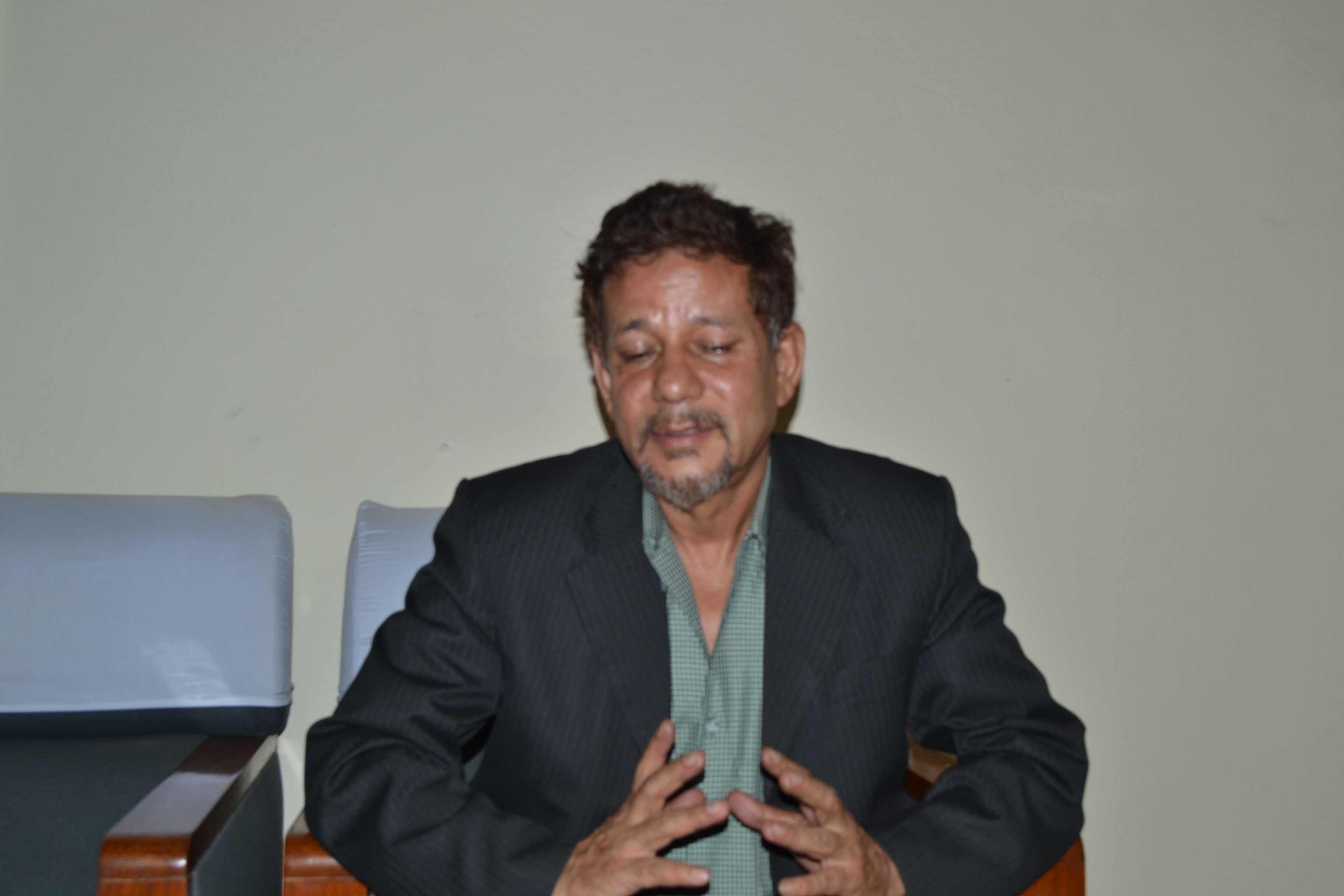 Keshab sathapit is a Former Mayor of Kathmandu.